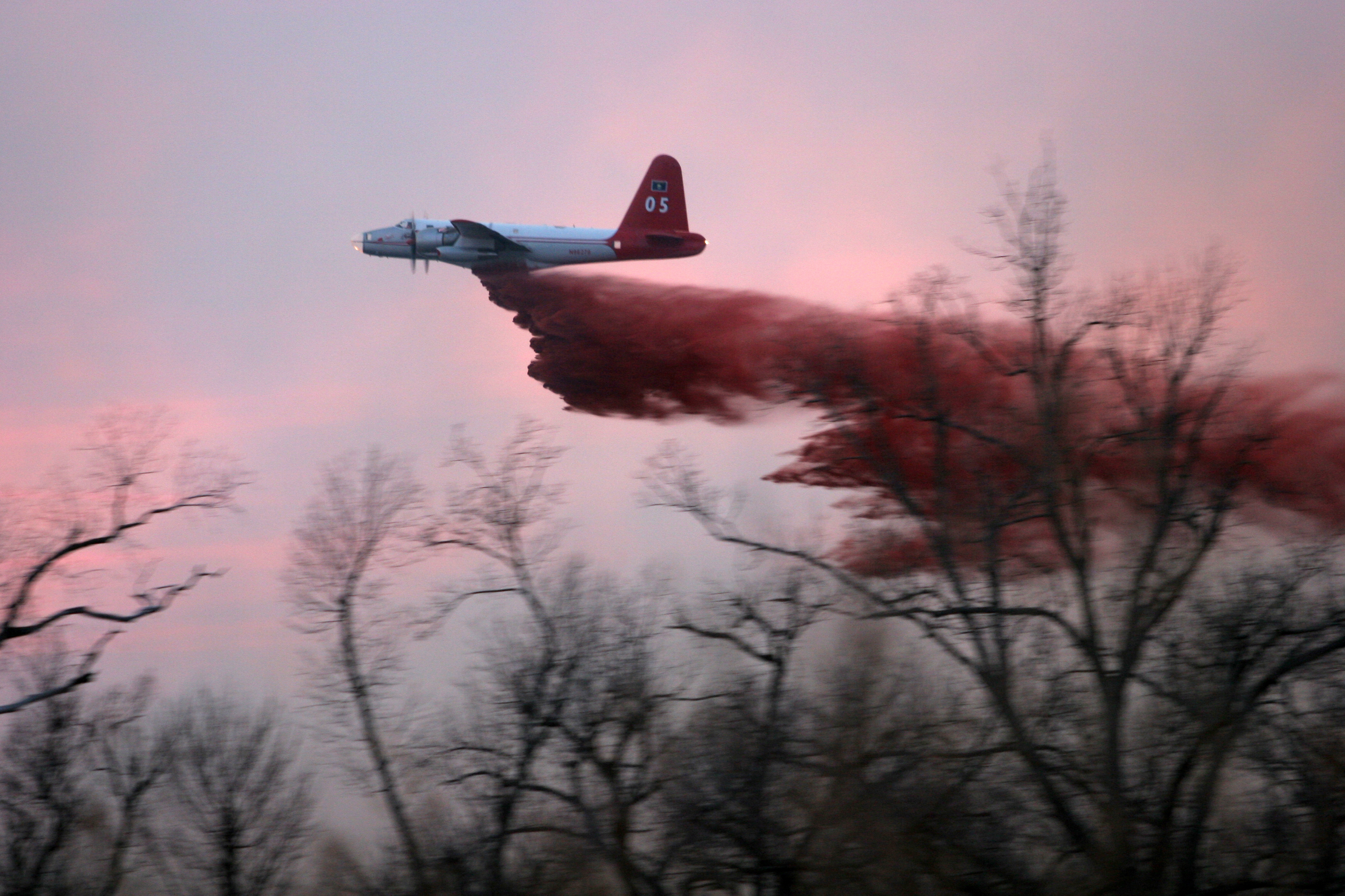 Ratliff, OK, January 18, 2006 -- A Lockheed P2 V5 "Neptune" airplane drops its load of 2080 gallons of fire retardant just before air operations are ceased due to darkness. Since November over 400,000 acres have burned in Oklahoma. Bob McMillan/ FEMA Photo